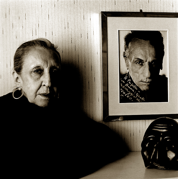 Pupella Maggio portrait - Augusto De Luca photo